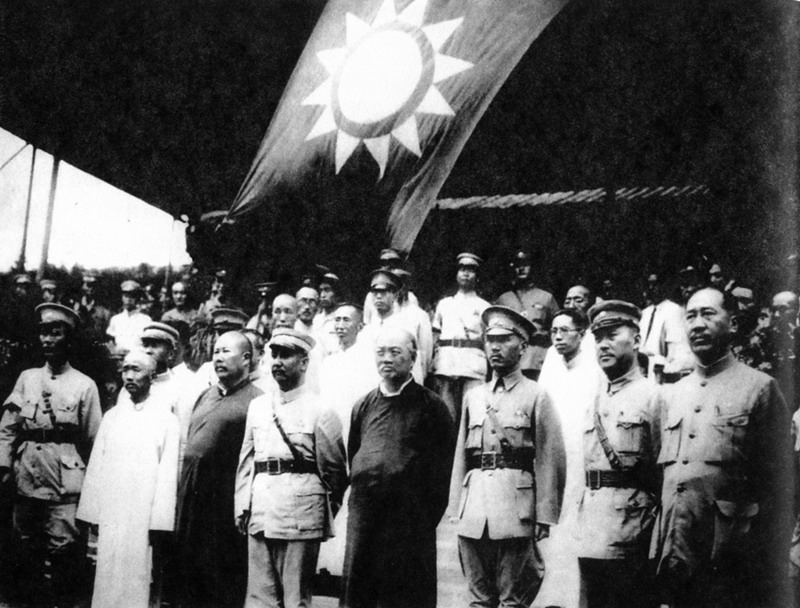 July 6, 1928, the Kuomintang leader Sun Yat-sen Mausoleum in Beijing Xishan Temple of Azure Clouds placed at the sacrificial ceremony held to Sun Yat-sen, to report completion of the Northern Expedition to Dr. Sun's soul. From right to left is Cheng Jun, Zhang Zuobao, Chen Diaoyuan, Chiang Kaishek, Wu Chih-hui, Yen Hsi-shan, Ma Fuxiang, Ma Sida, Bai Chongxi.